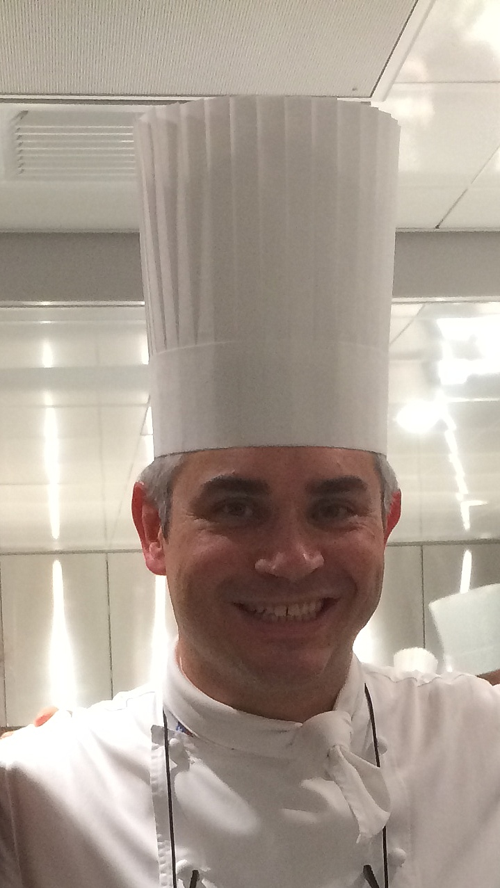 Chef Benoît Violier in his Restaurant de l'Hôtel-de-Ville, Crissier, Vaud, Switzerland